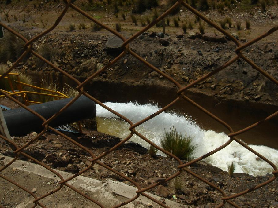 Sewage disposal. Taken in Peru.